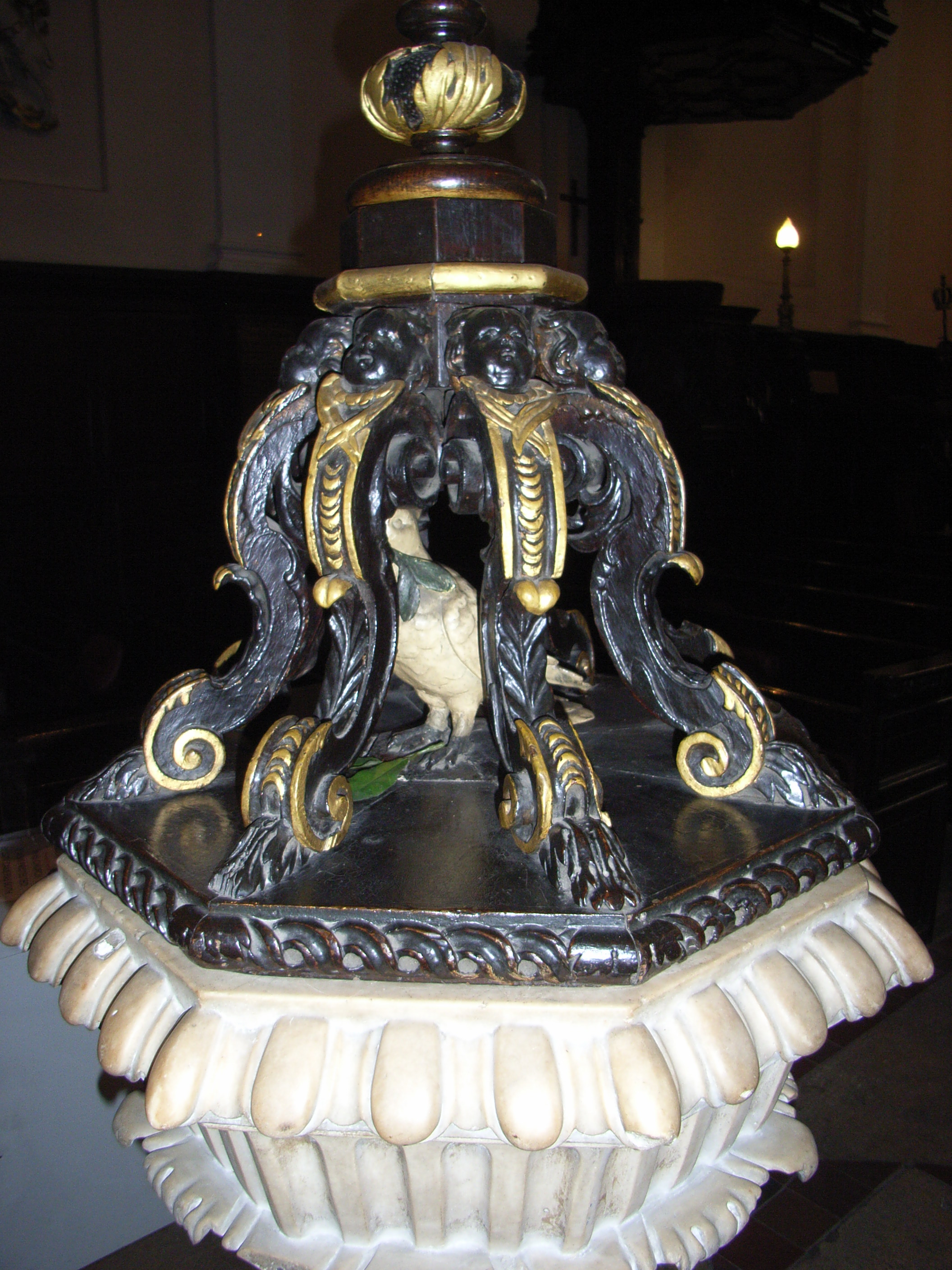 For full details see the Wikipedia page for St Clement Eastcheap.